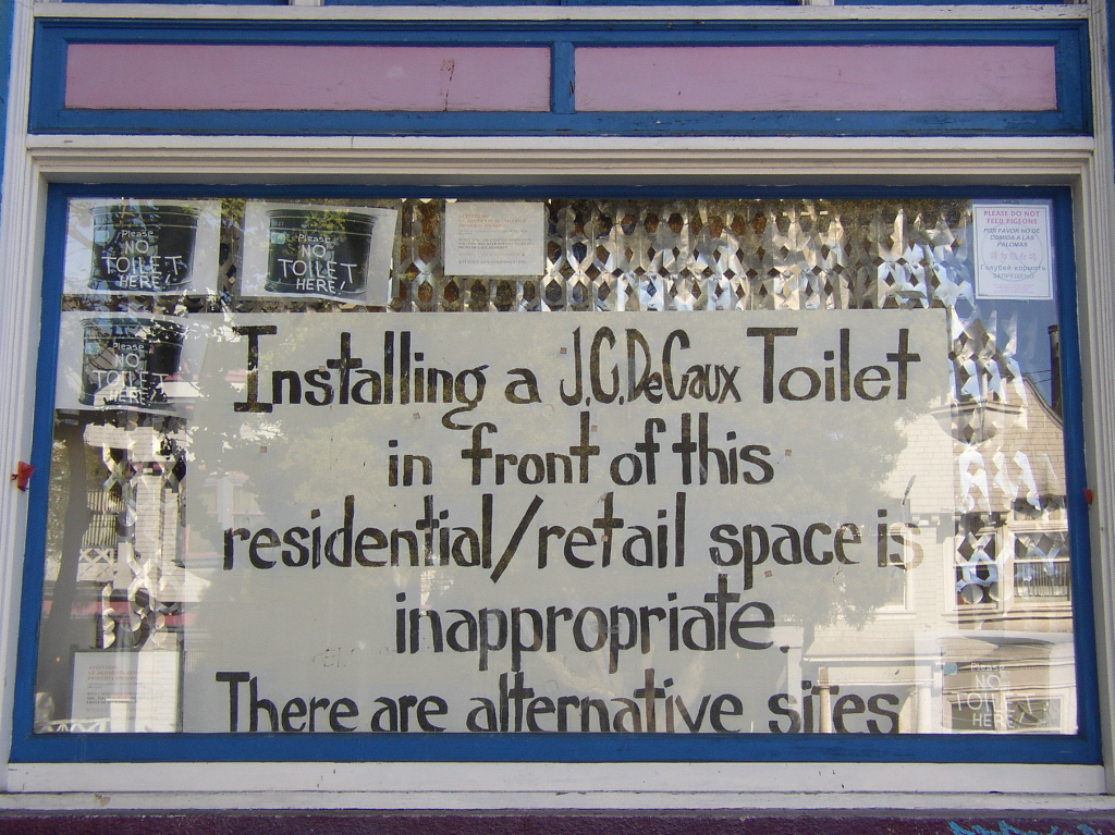 The City of San Francisco has placed coin-operated automatic self-cleaning public toilets, built by the JCDecaux company in the City. These toilets in many spots are used as private drug parlors/shooting galleries for junkies.